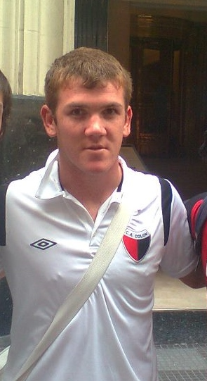 El Colo Lessman firmando sacandose fotos y firmando autografos con sus fans.